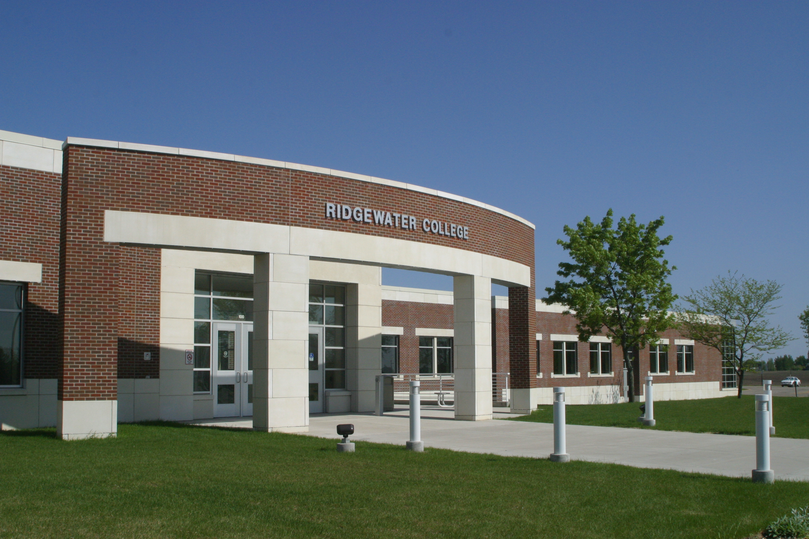 Hutchinson Exterior